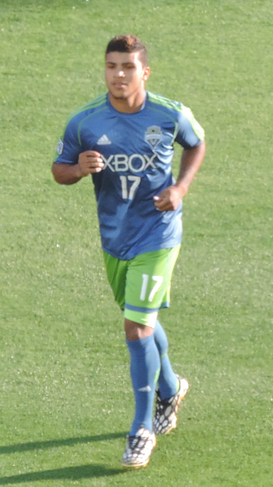 DeAndre Yedlin warming up before the game versus the San Jose Earthquakes at Levi's Stadium on August 2nd, 2014.